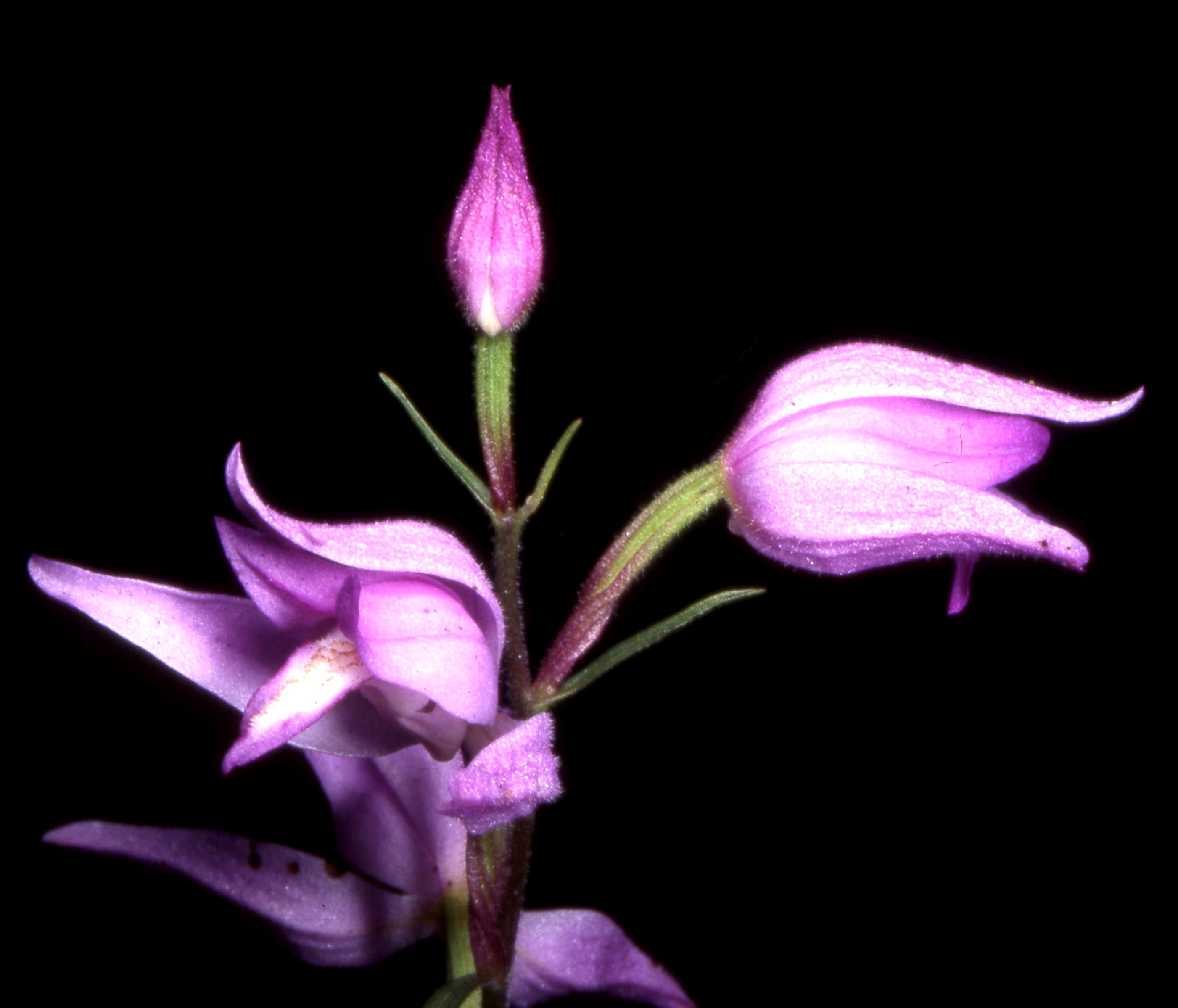 Cephalanthera rubra